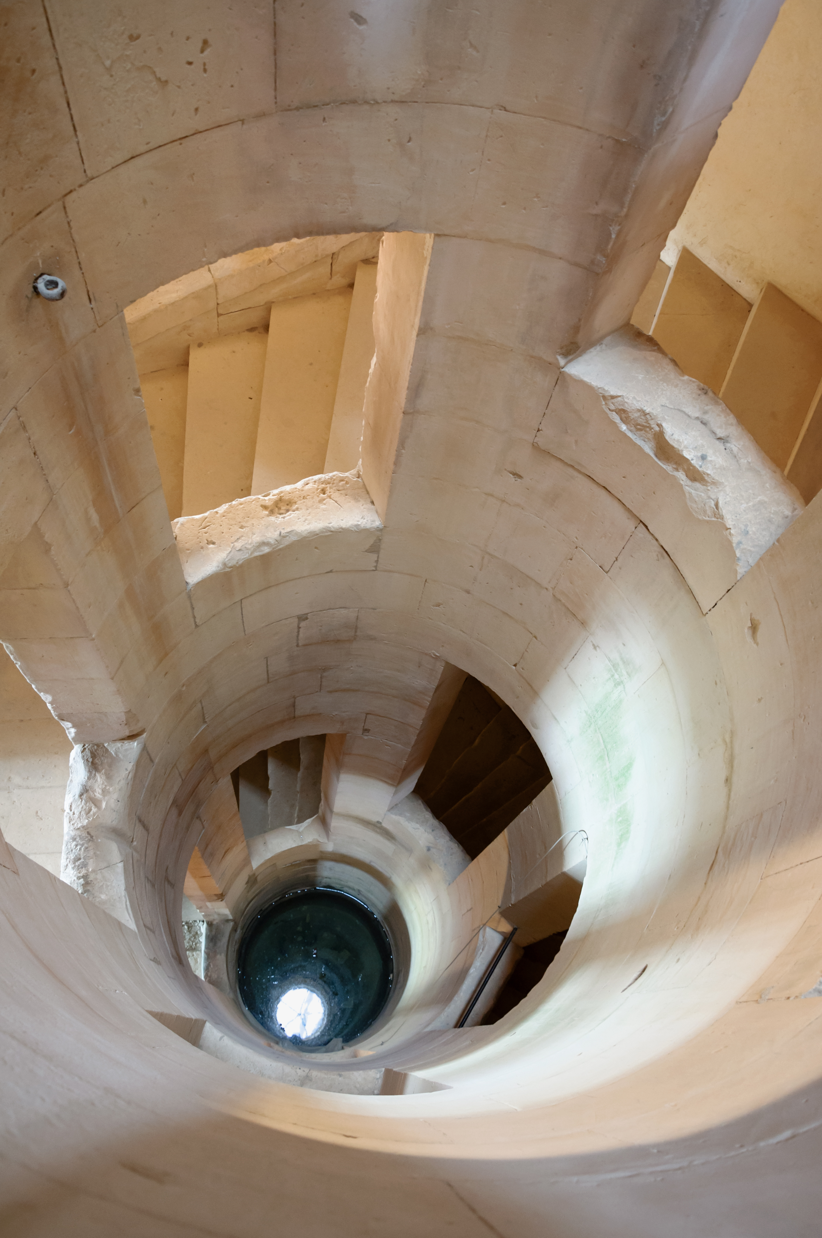 Château de Maulnes in Cruzy-le-Châtel, Burgundy, France: the well, axis of the central helical stairs which is also a skylight.